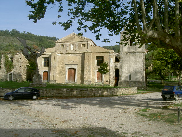 The church and the central square of the ghost town of Roscigno Vecchia — Campania, southern Italy.